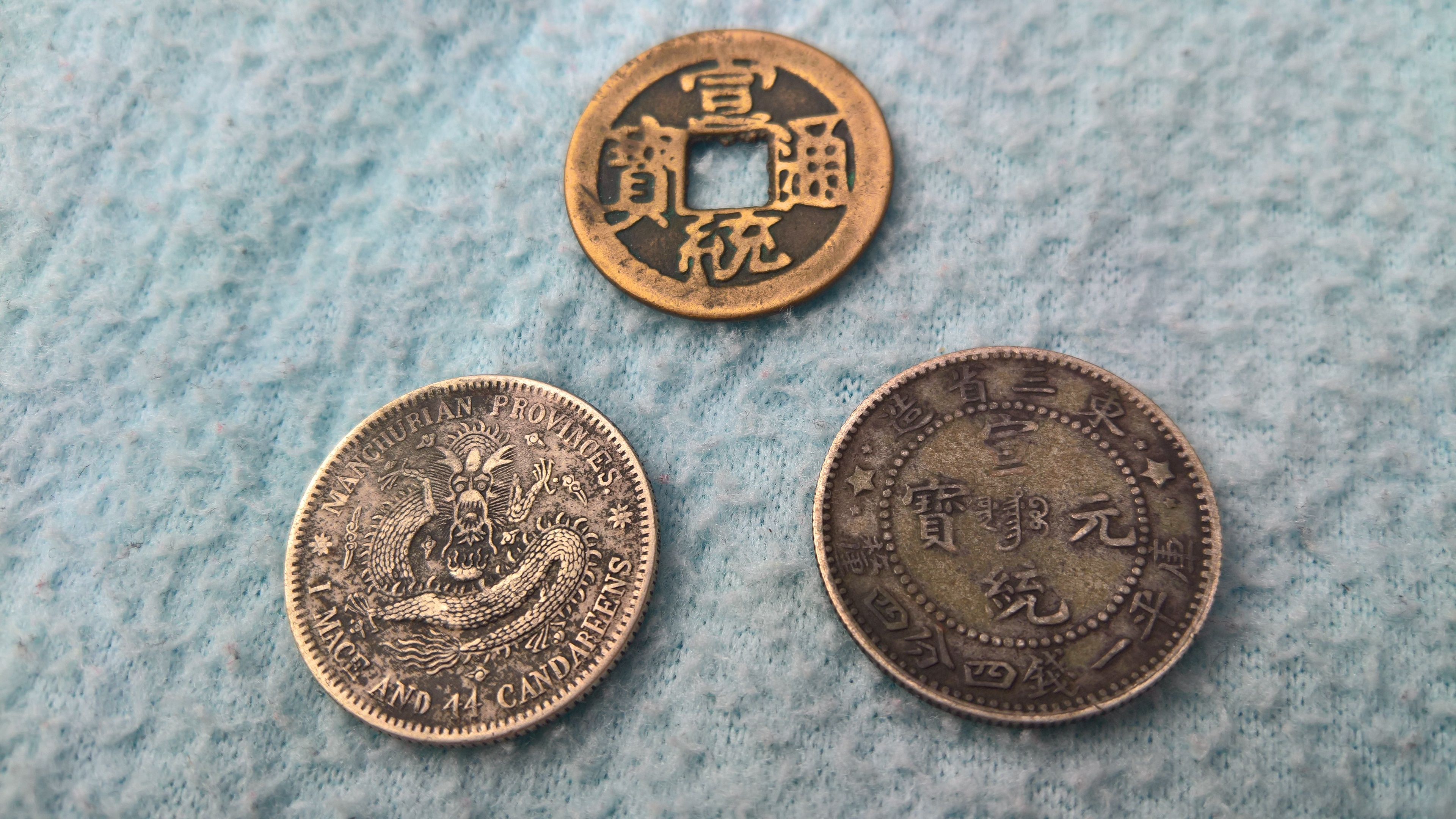 A copper and 2 (two) silver coins from the end of the Qing Dynasty.